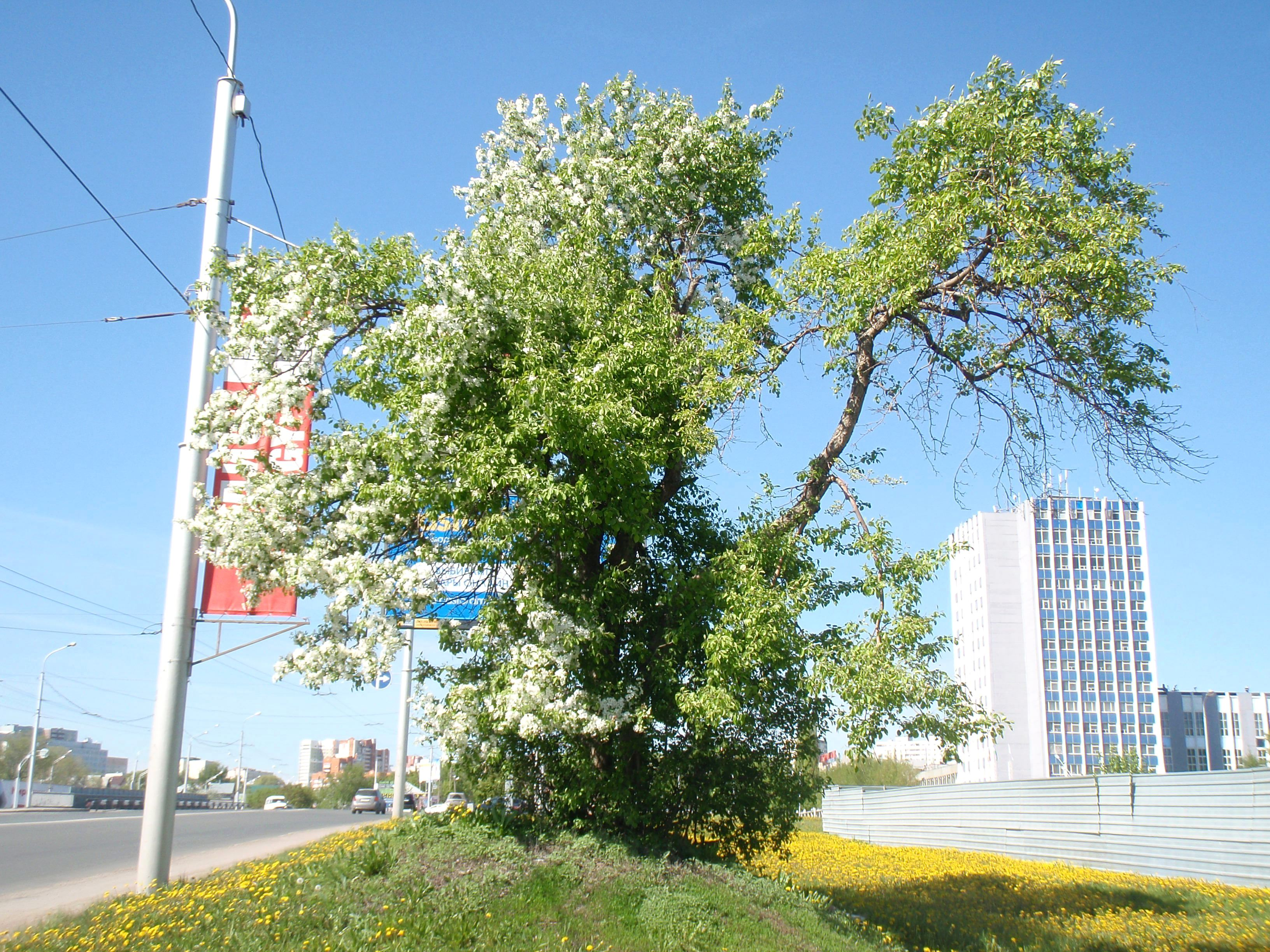 Blooming apple tree near the road. Ufa, Russia